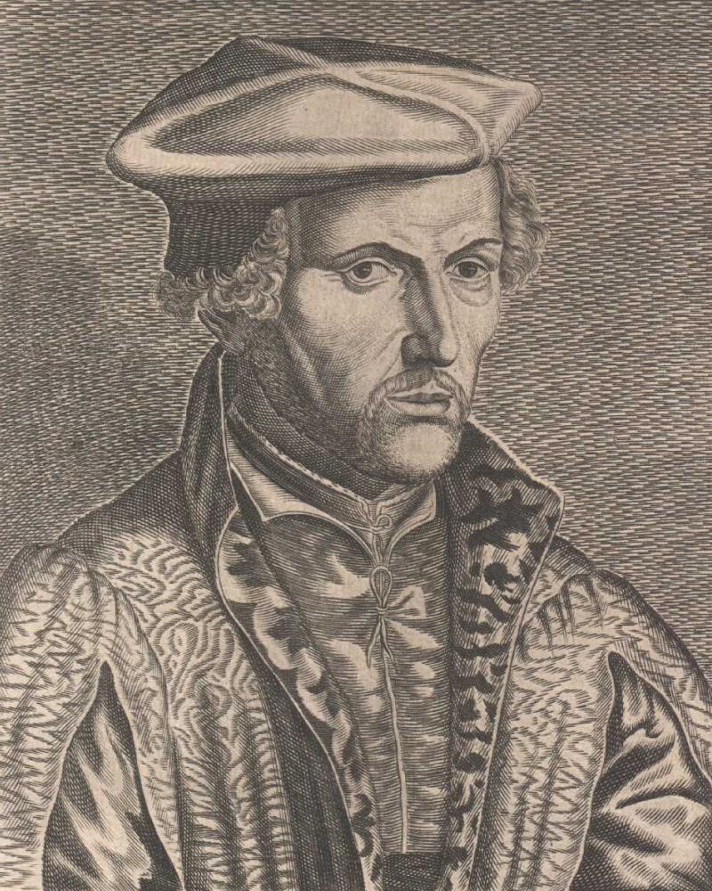 Gemma Frisius, 1508-1555, cartographer and mathematician